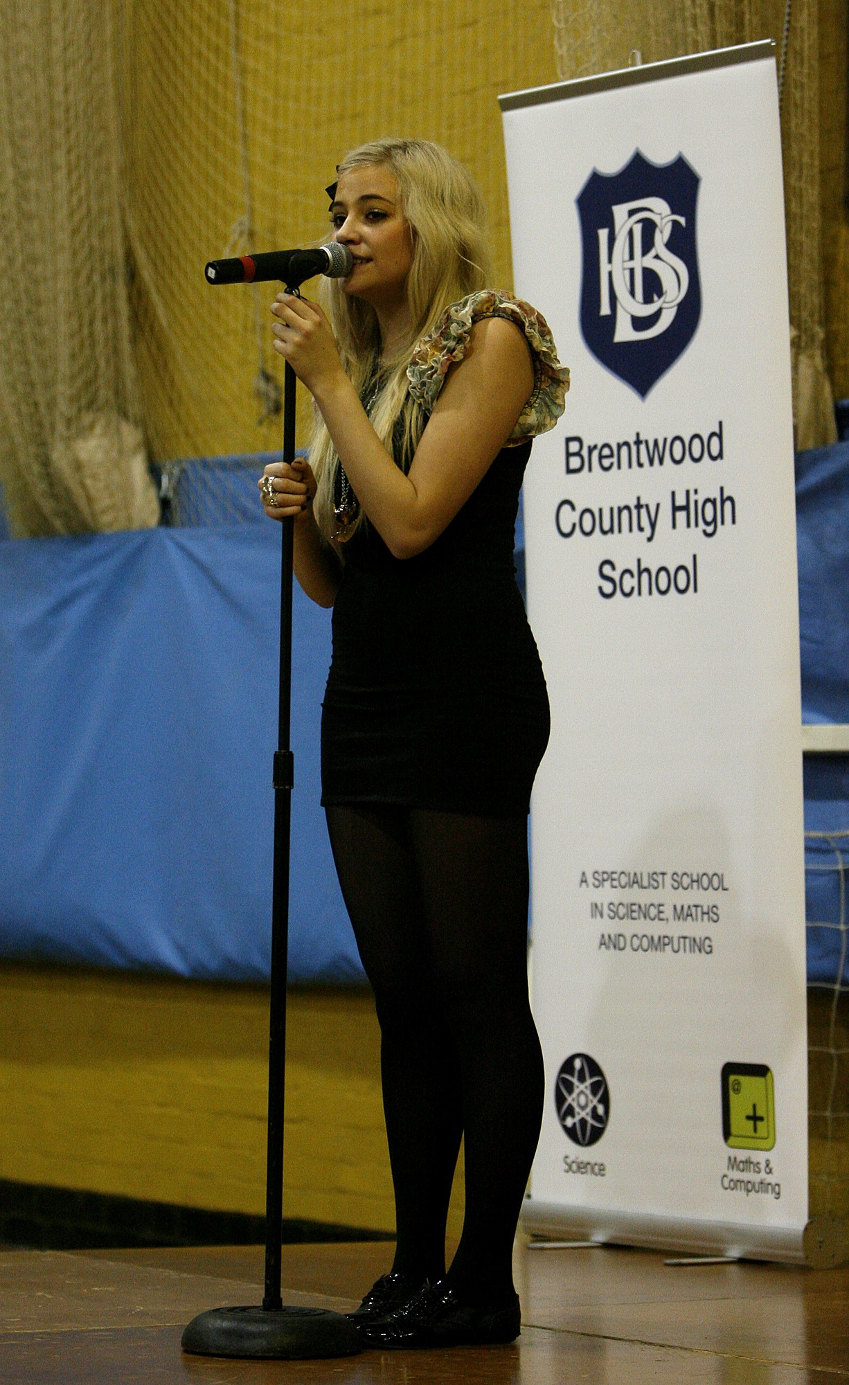 A photograph of Pixie Lott performing at Brentwood County High School in February 2010.